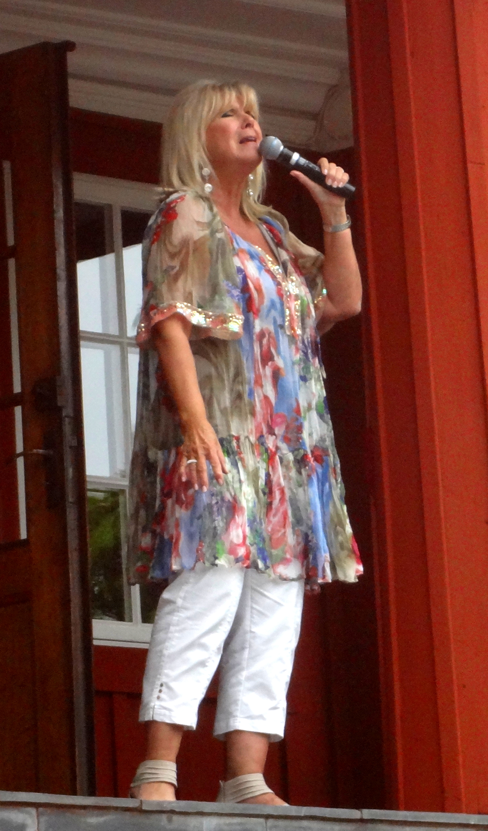 Swedish singer Ann-Louise Hanson. 2012-07-01